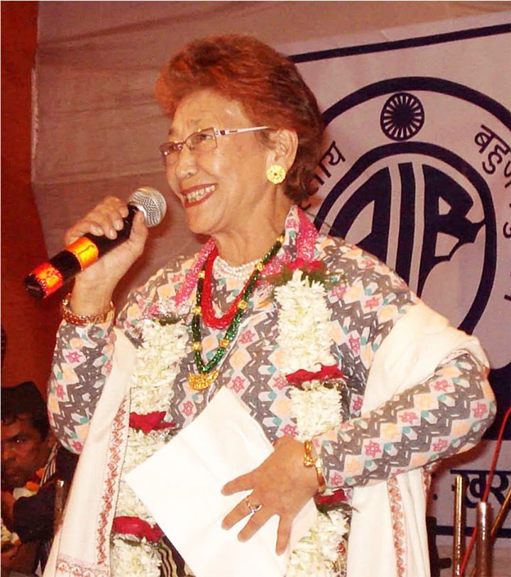 Picture of Hira Devi Waiba taken in 2010.